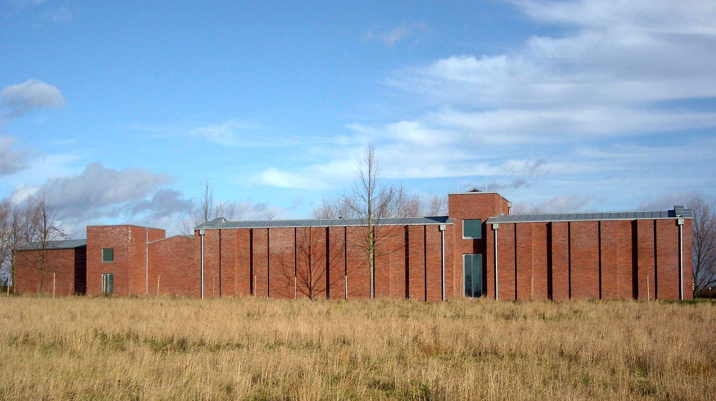 Feld-Haus